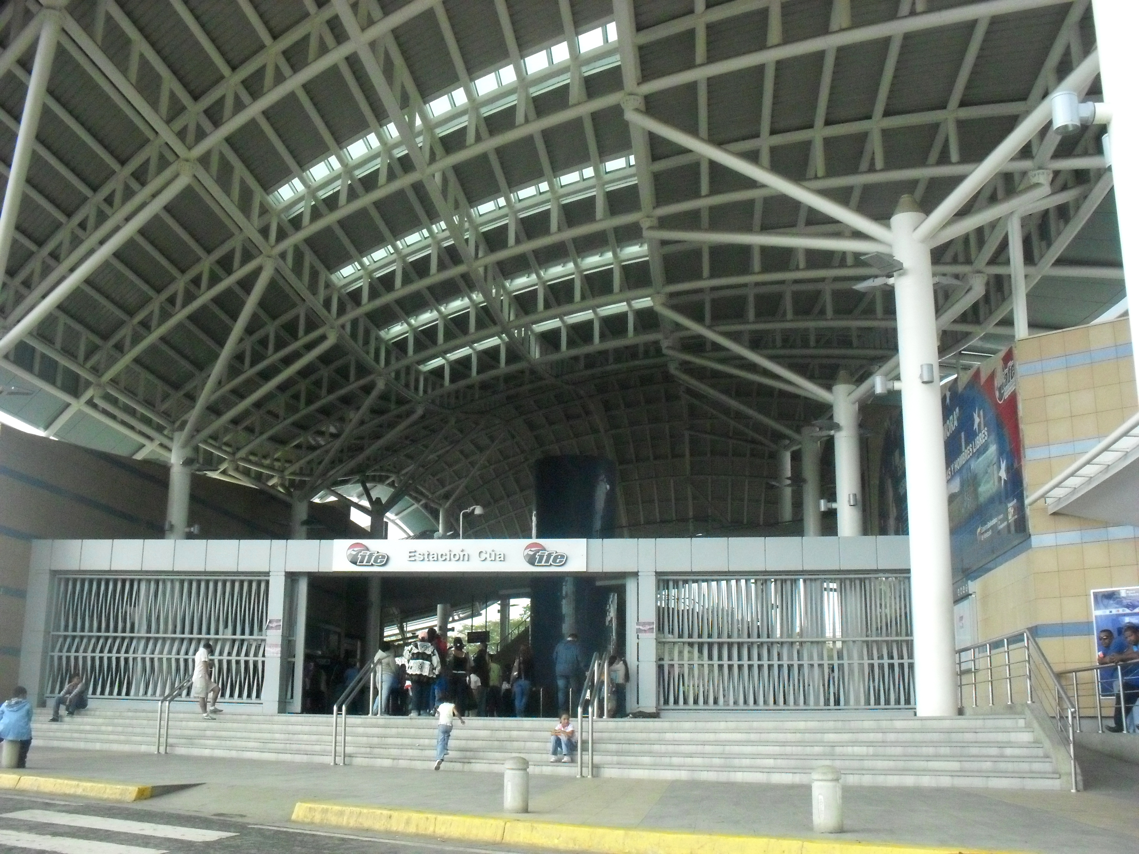 General Ezequiel Zamora Station, Cúa, State Miranda. Venezuelan Rail System